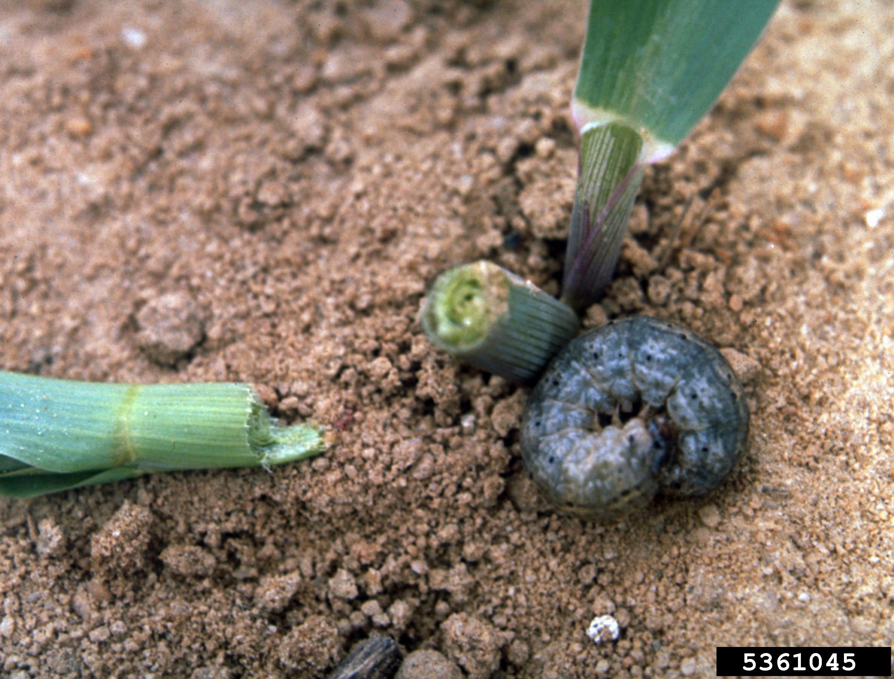 Black cutworm larva (Agrotis ipsilon) lying next to the damage it caused to a young corn plant.